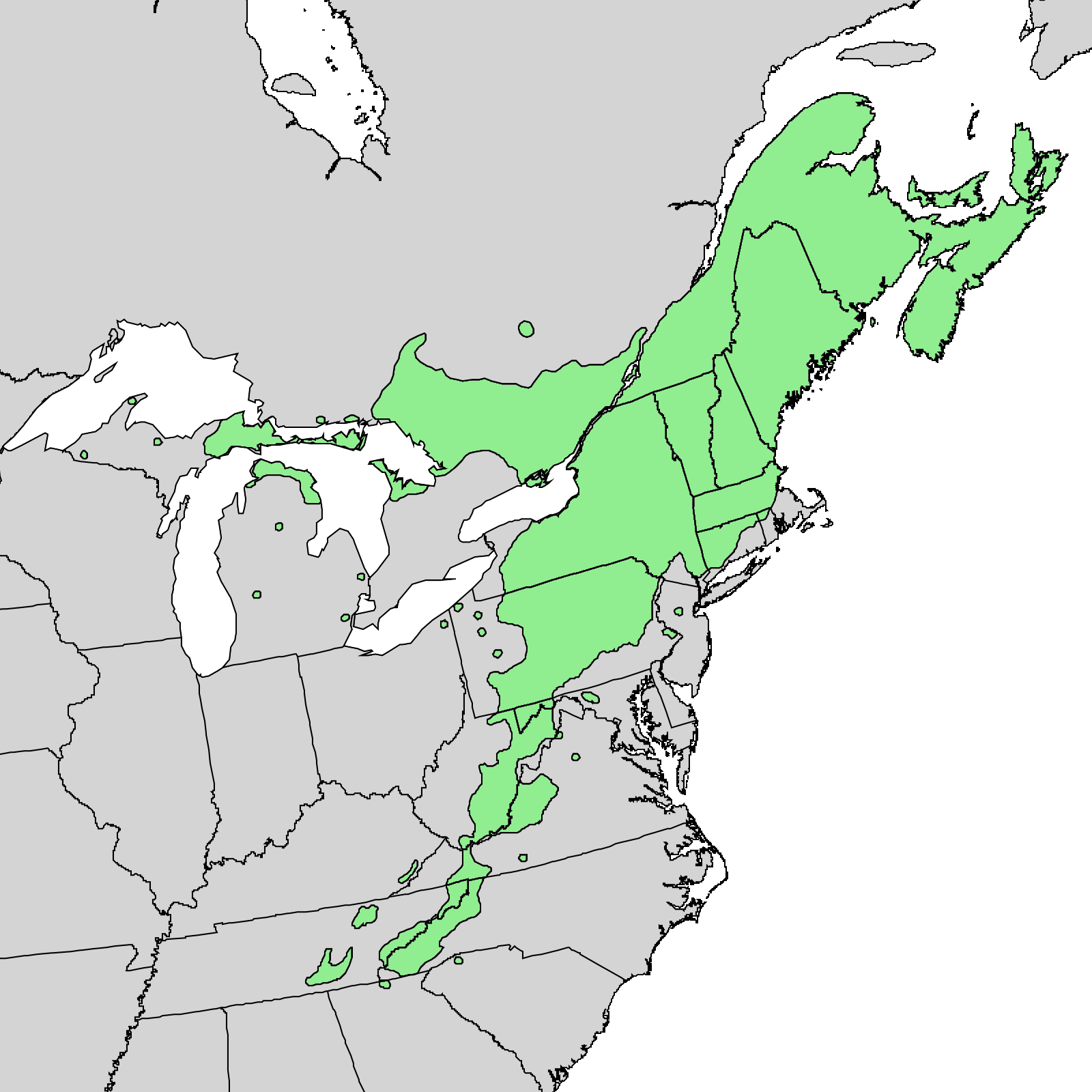 Range map of Acer pensylvanicum L. — Striped maple.